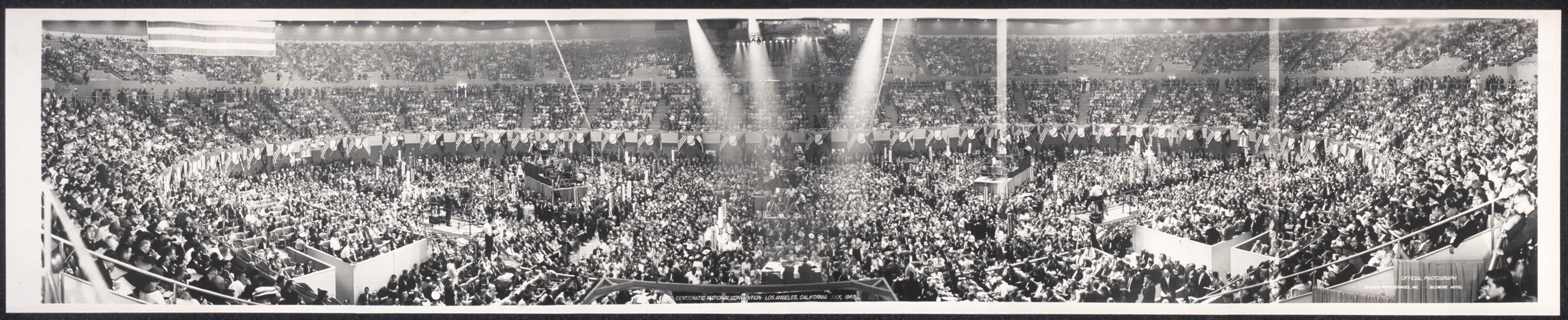 Panoramic Photograph of the Democratic National Convention, Los Angeles, California, July, 1960